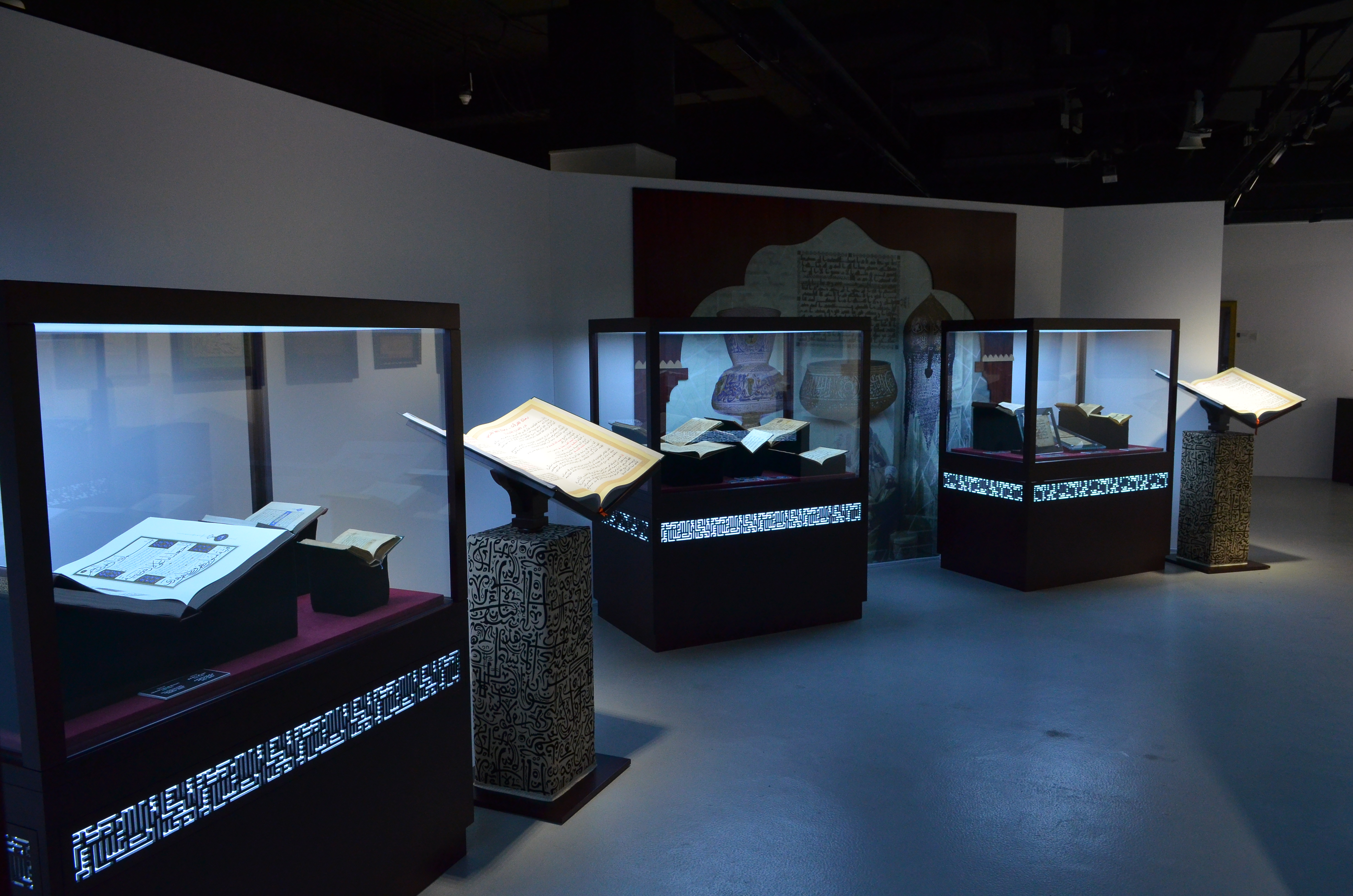 "Journey of Quran and Arabic Calligraphy" exhibition, Ibrahim Al Fakhro collection, Doha-Qatar